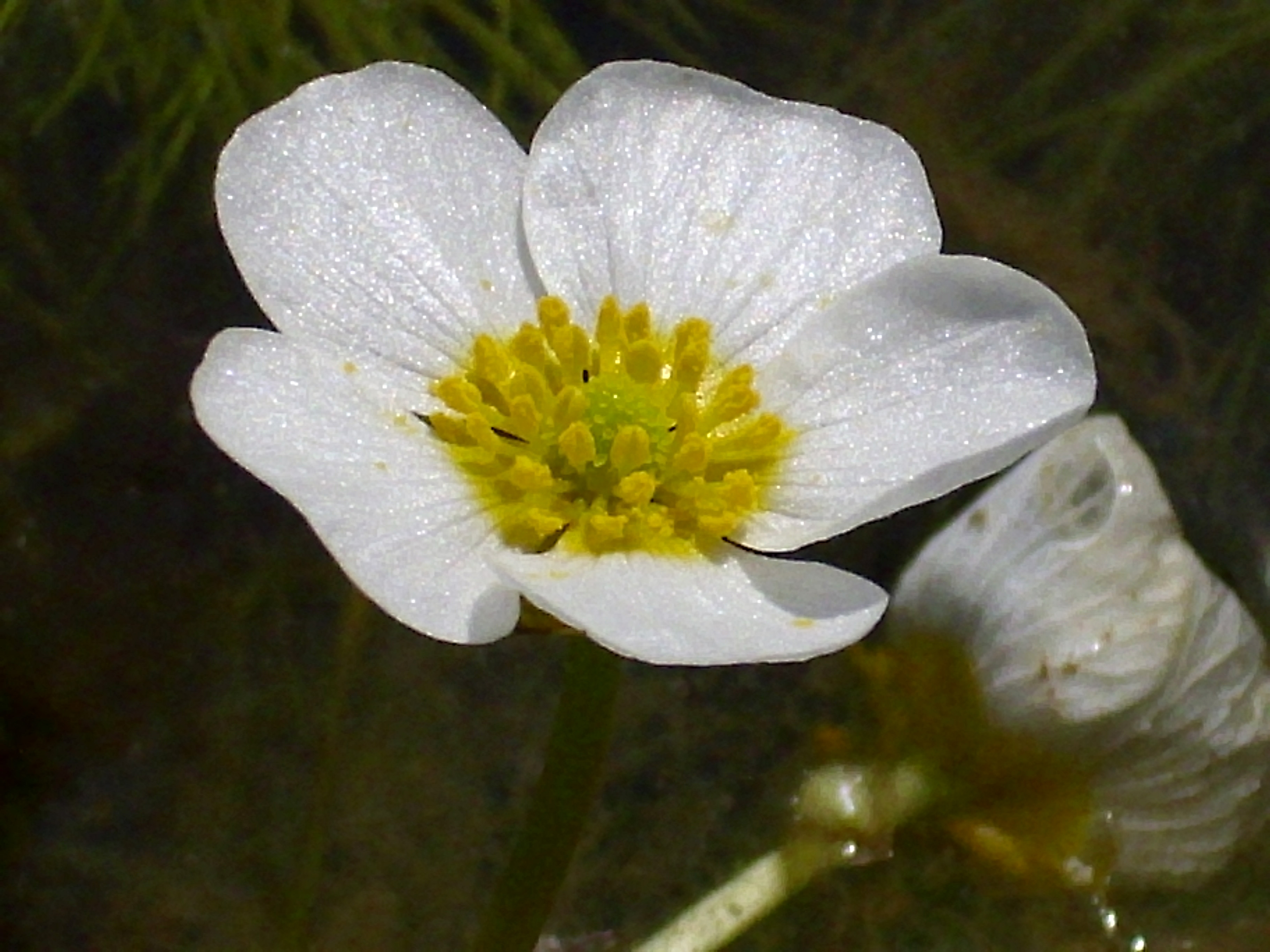 Ranunculus peltatus flowers close up, Dehesa Boyal de Puertollano, Spain